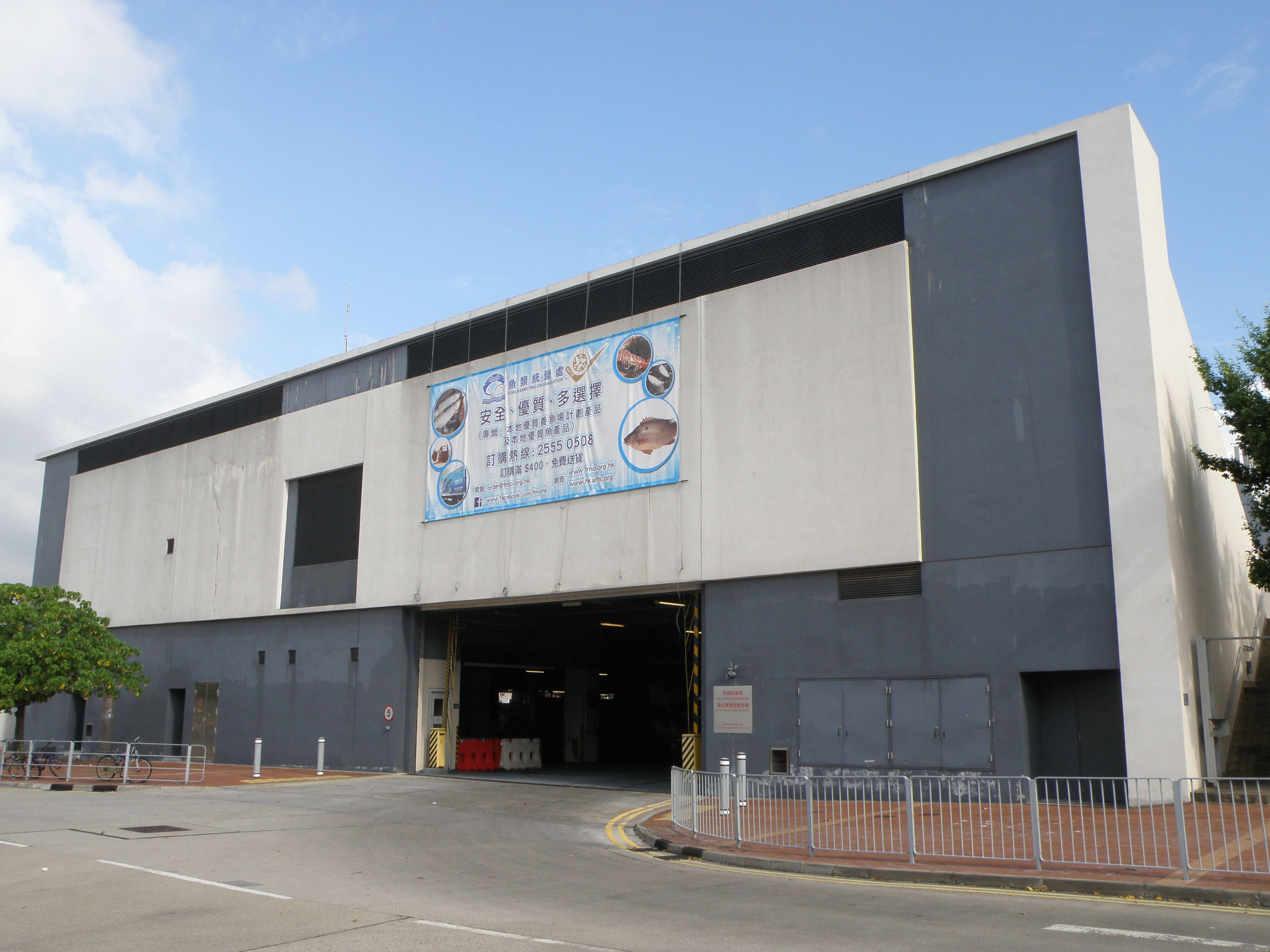 Castle Peak Wholesale Fish Market in Tuen Mun, Hong Kong.